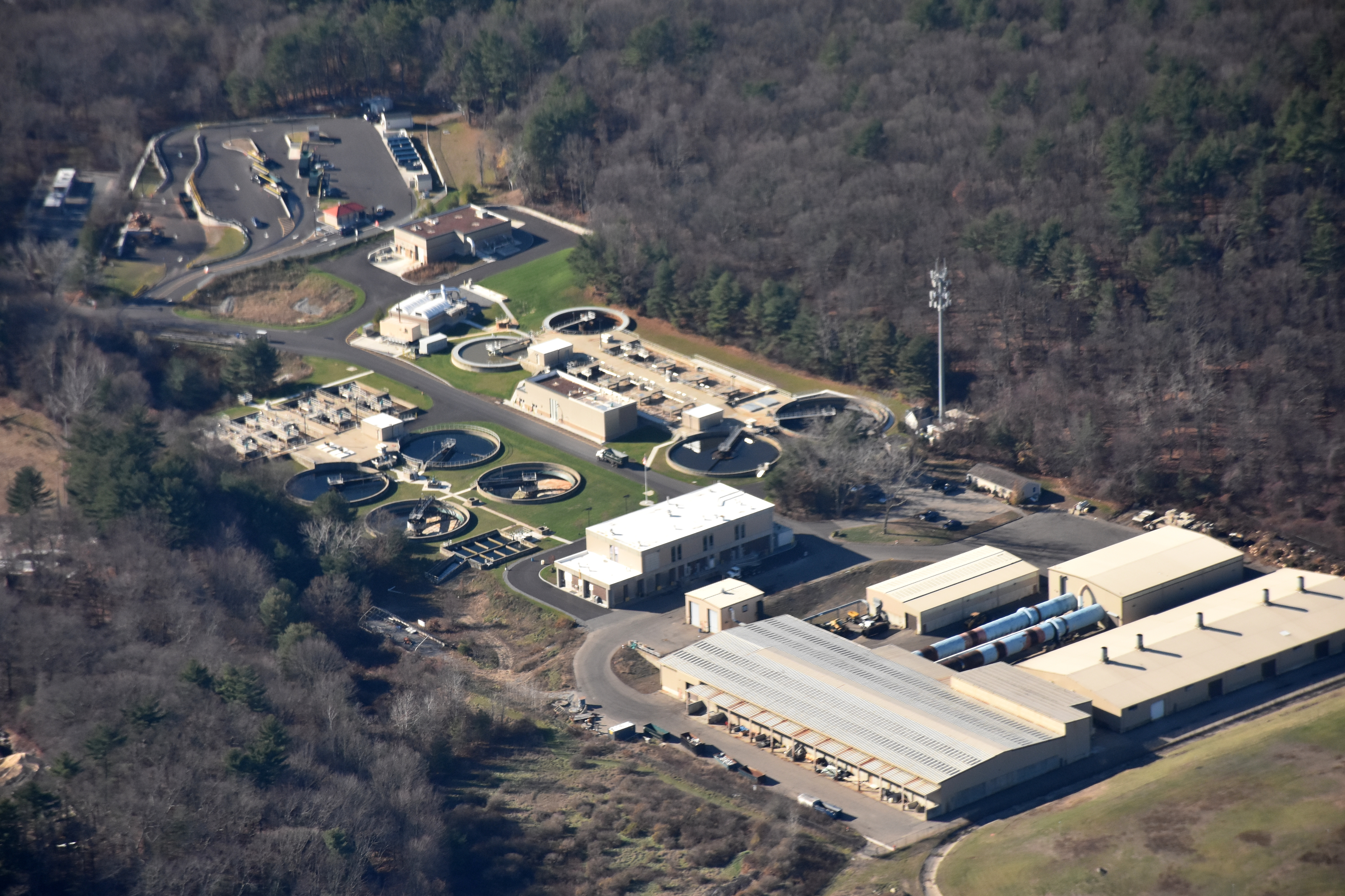 Aerial view of Marlborough East Wastewater Treatment Plant (WWTP) in Marlborough, Massachusetts